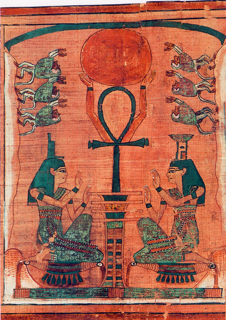 Anch and Sunwheel from a book of the dead, originally created by the egyptian writer Ani.